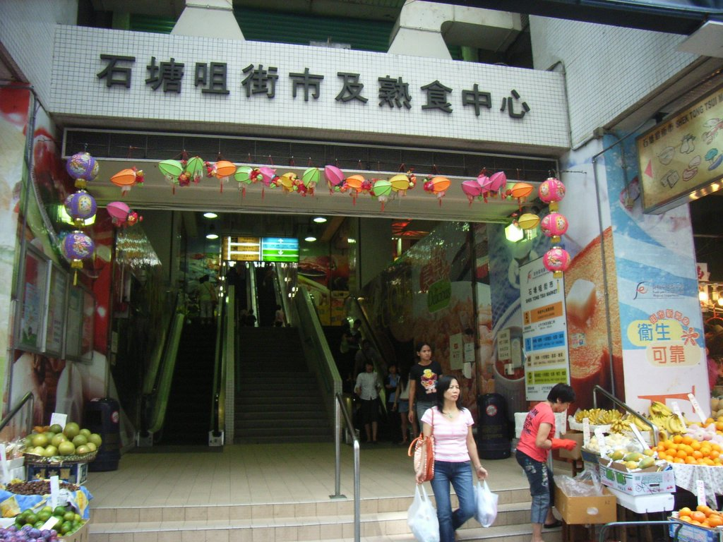 石塘咀市政大廈 Shek Tong Tsui Market and Cooked Centre, Shek Tong Tsui Municipal Services Building. Photographer is User:SeaLai Ho